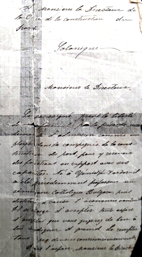 Job Application of Dimitar Trapkov, 1897